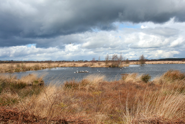 Lake on Whixall Moss This small lake, one of many on Whixall and Fenn's Mosses, is presumably a remnant of former peat cutting. It is now a haven for bird life. View from one of the Mosses Trails